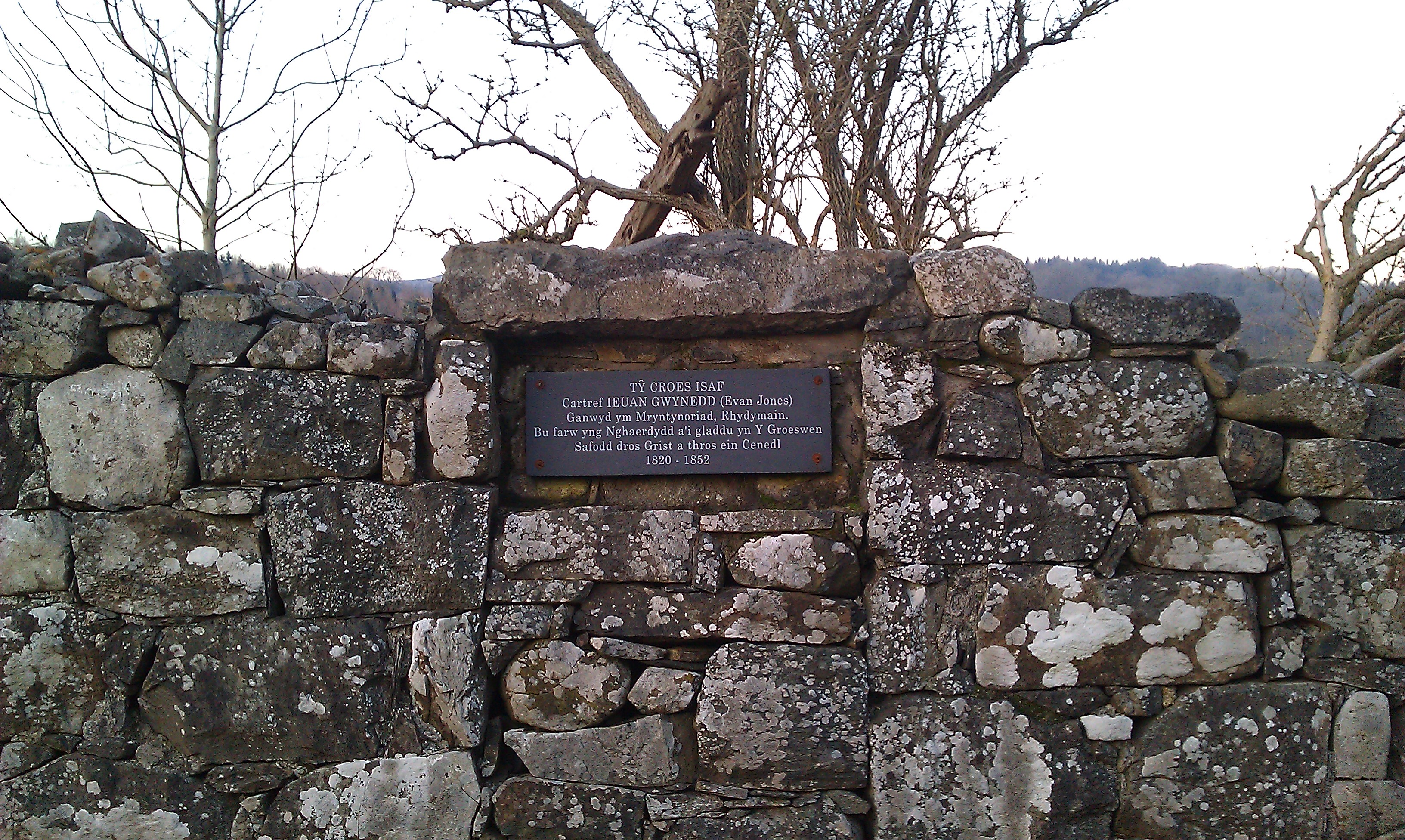 Plaque of Evan Jones's (Ieuan Gwynedd) home.